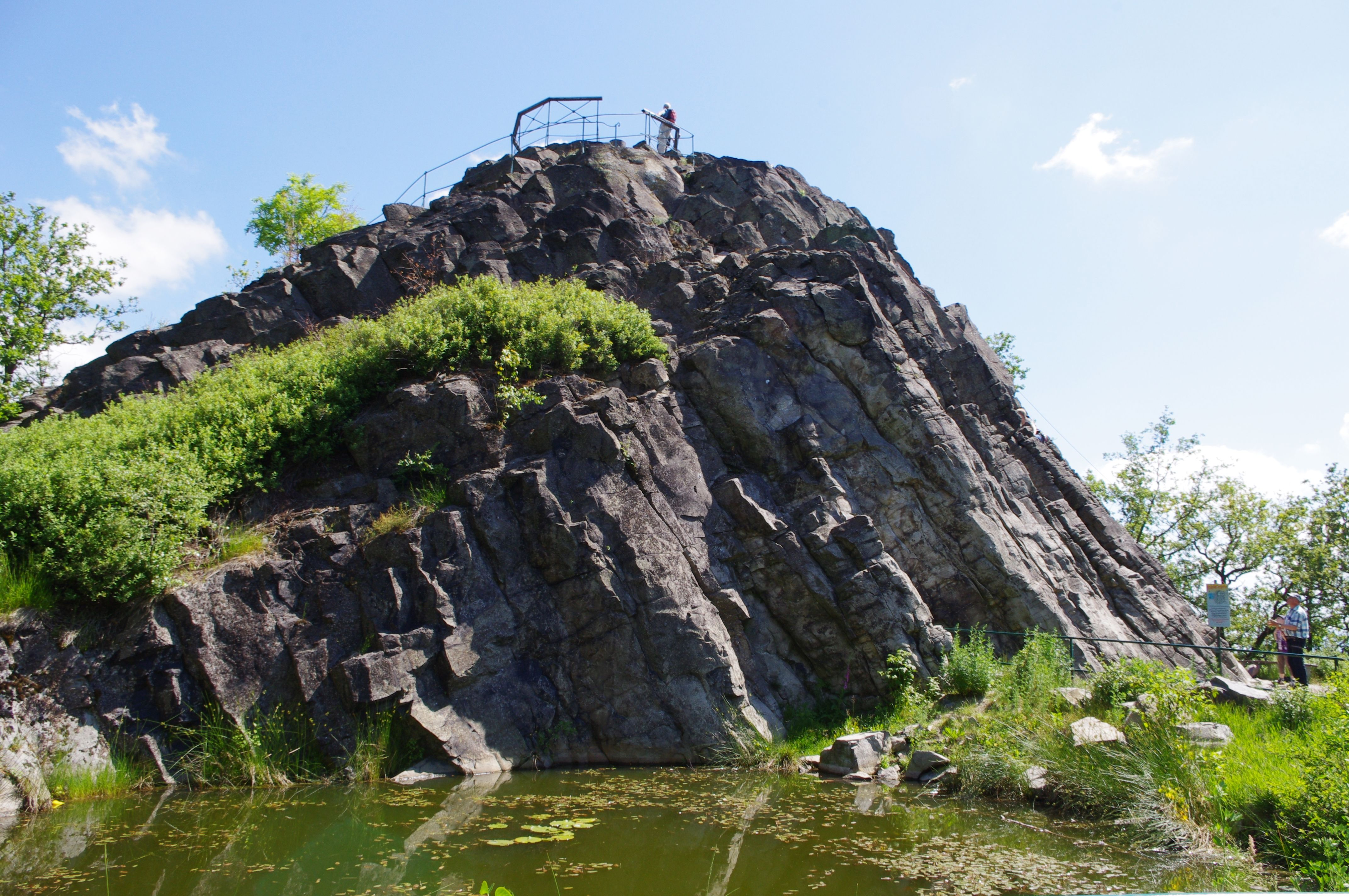 The peak of the mountain Spitzberg near Oderwitz, Germany.